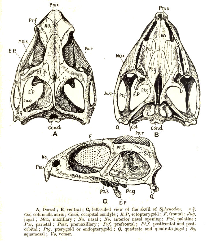 Skull of Tuatara Sphenodon